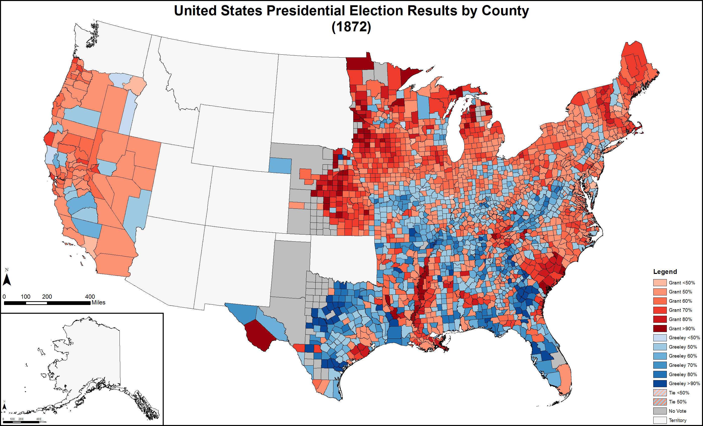 Presidential election results by county (1872). Colors based on Colorbrewer 2.0.